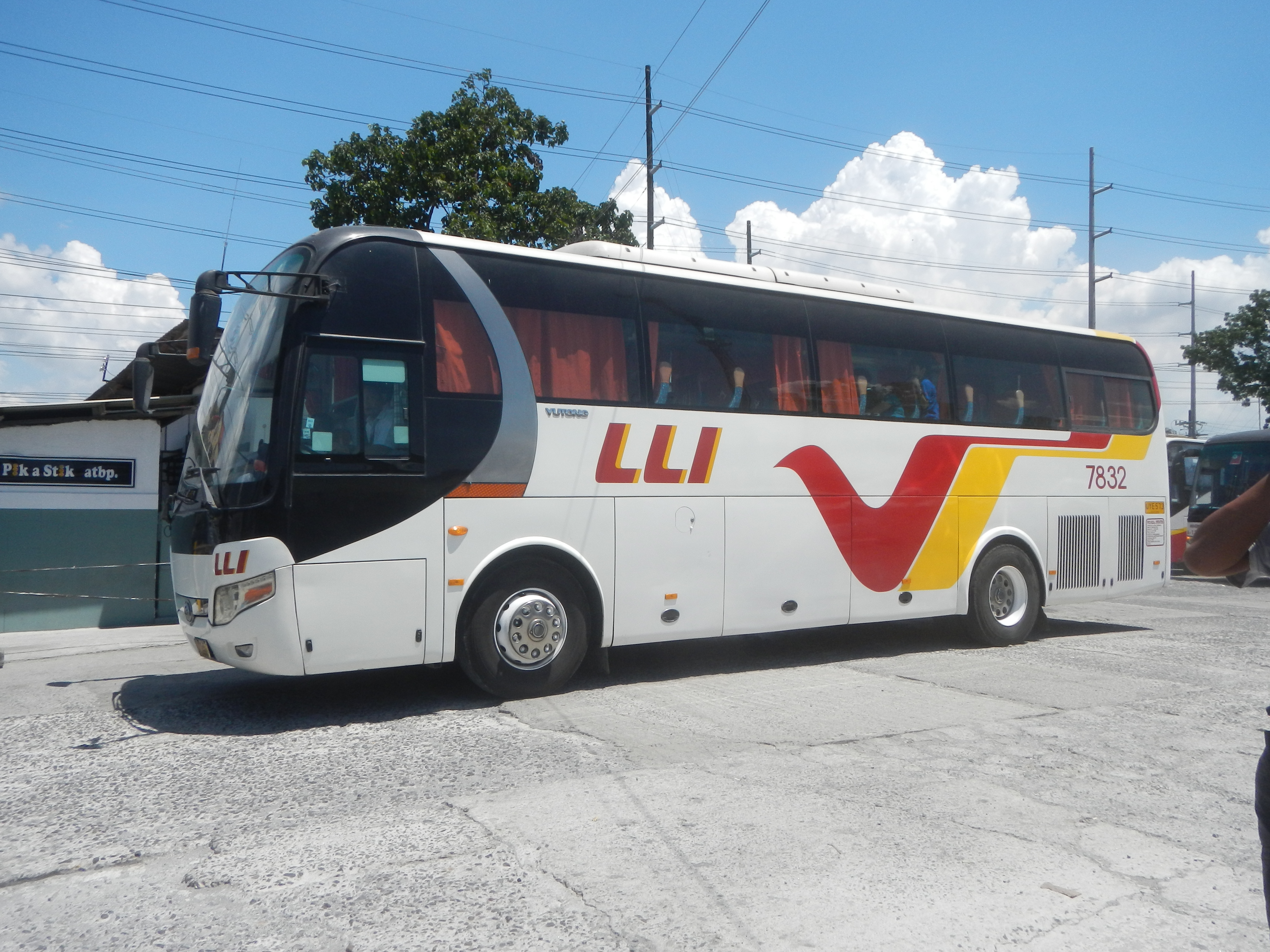 National Highway (Calamba Poblacion-Mayapa) Calamba Poblacion Saint Rose Transit Lucena Lines Suero's Transport Terminal (Paciano Rizal, Calamba City) HM Transport, Inc. along Maharlika Highway (Calamba City section) Pan-Philippine Highway; in Barangays Paciano Rizal, Calamba Mayapa Canlubang, Calamba, Laguna Poblacion 14°12'32"N 121°9'46"E Calamba Poblacion (Note: Judge Florentino Floro, the owner, to repeat, Donor Florentino Floro of all these photos hereby donate gratuitously, freely and unconditionally Judge Floro all these photos to and for Wikimedia Commons, exclusively, for public use of the public domain, and again without any condition whatsoever).